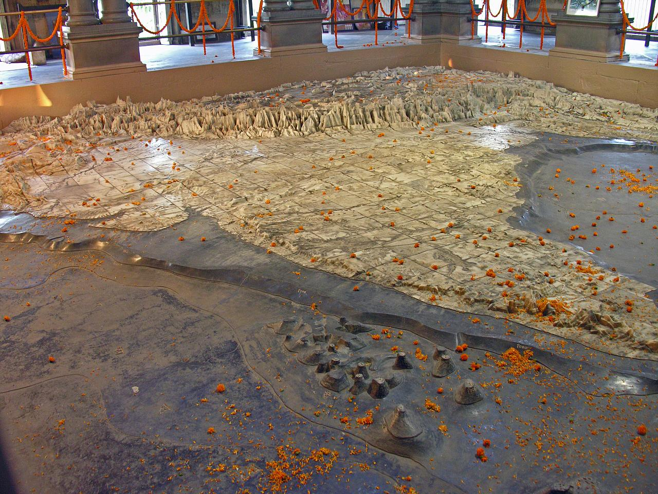 Marble map of India at Bharat Mata Temple in Varanasi. Original caption: Bharat Mata Temple at Varanasi is the only temple dedicated to Mother India. The temple was built by Babu Shiv Prasad Gupt and inaugurated by Mahatma Gandhi in 1936. The most peculiar thing about the Bharat Mata Temple is that instead of the customary gods and goddesses, it houses a relief map of India, carved out of marble. India